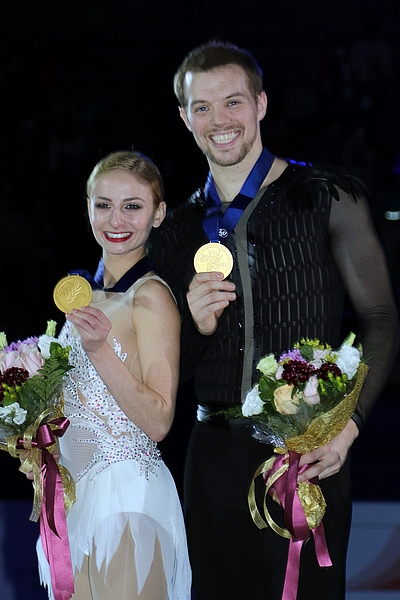 Tarah Kayne and Daniel O'Shea at the 2018 Four Continents